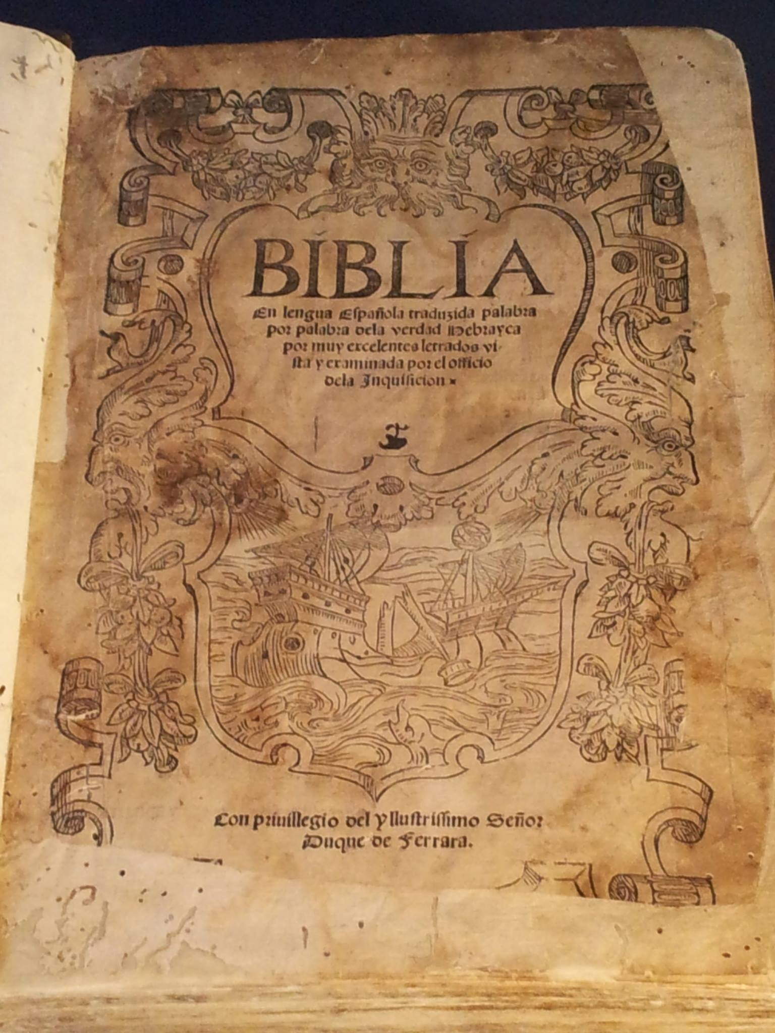 Homepage Bible of Ferrara.